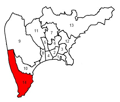 Location of canton of Nice-14 in the city of Nice, Alpes-Maritimes, France.